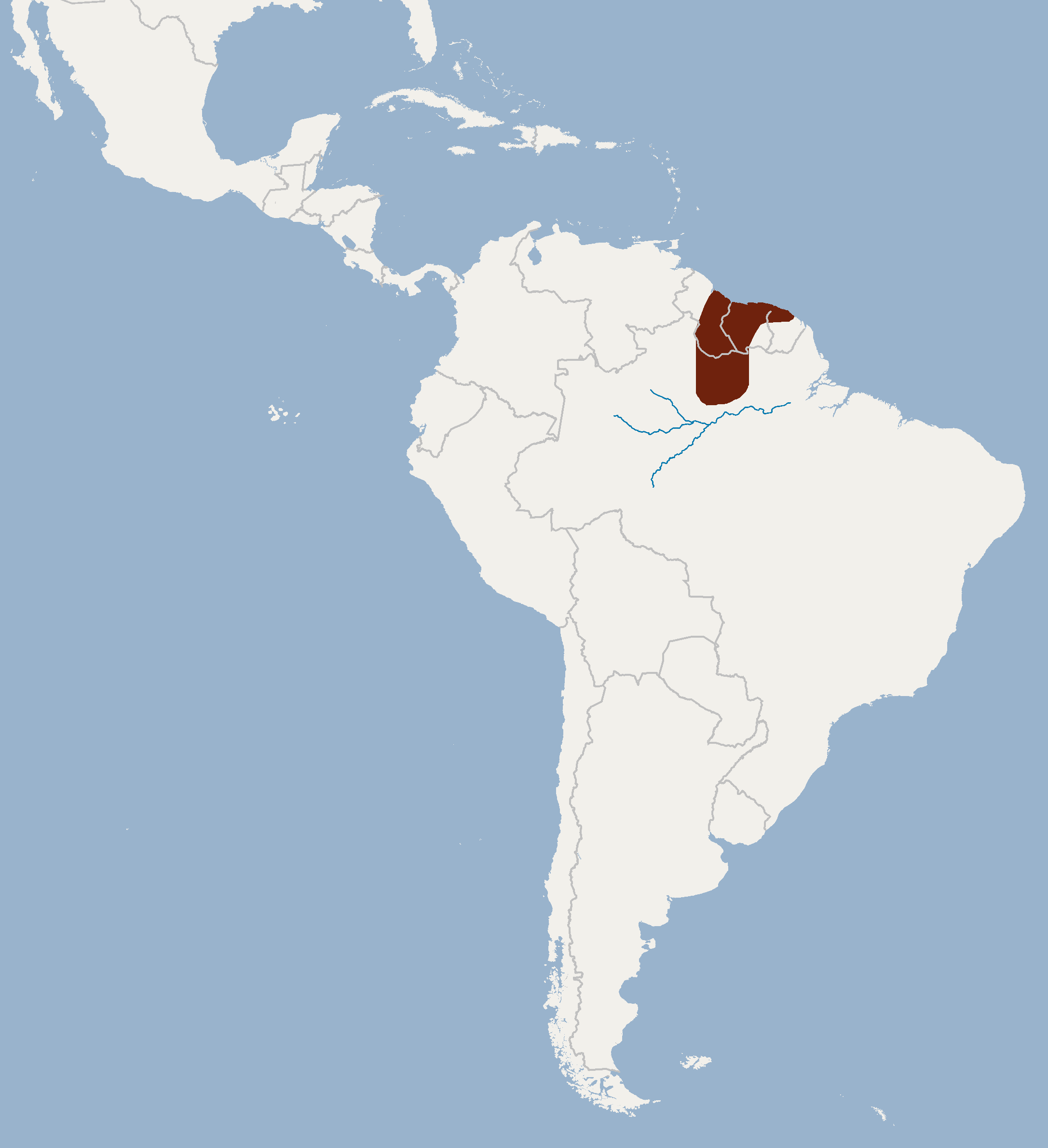 Geographical distribution of Lophostoma schulzi according to Gardner AL, 2008